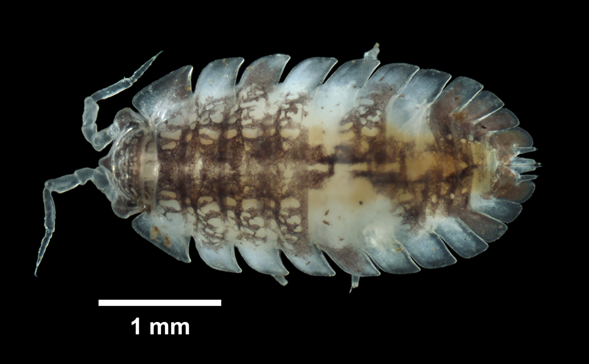 PRESERVED_SPECIMEN; ; 70% alc.; Det. by: Eric A. Lazo-Wasem; GM Image; IZ number 77355; lot count 1; specimen; female; ovigerous; 2015-10-16T00:00:00Z